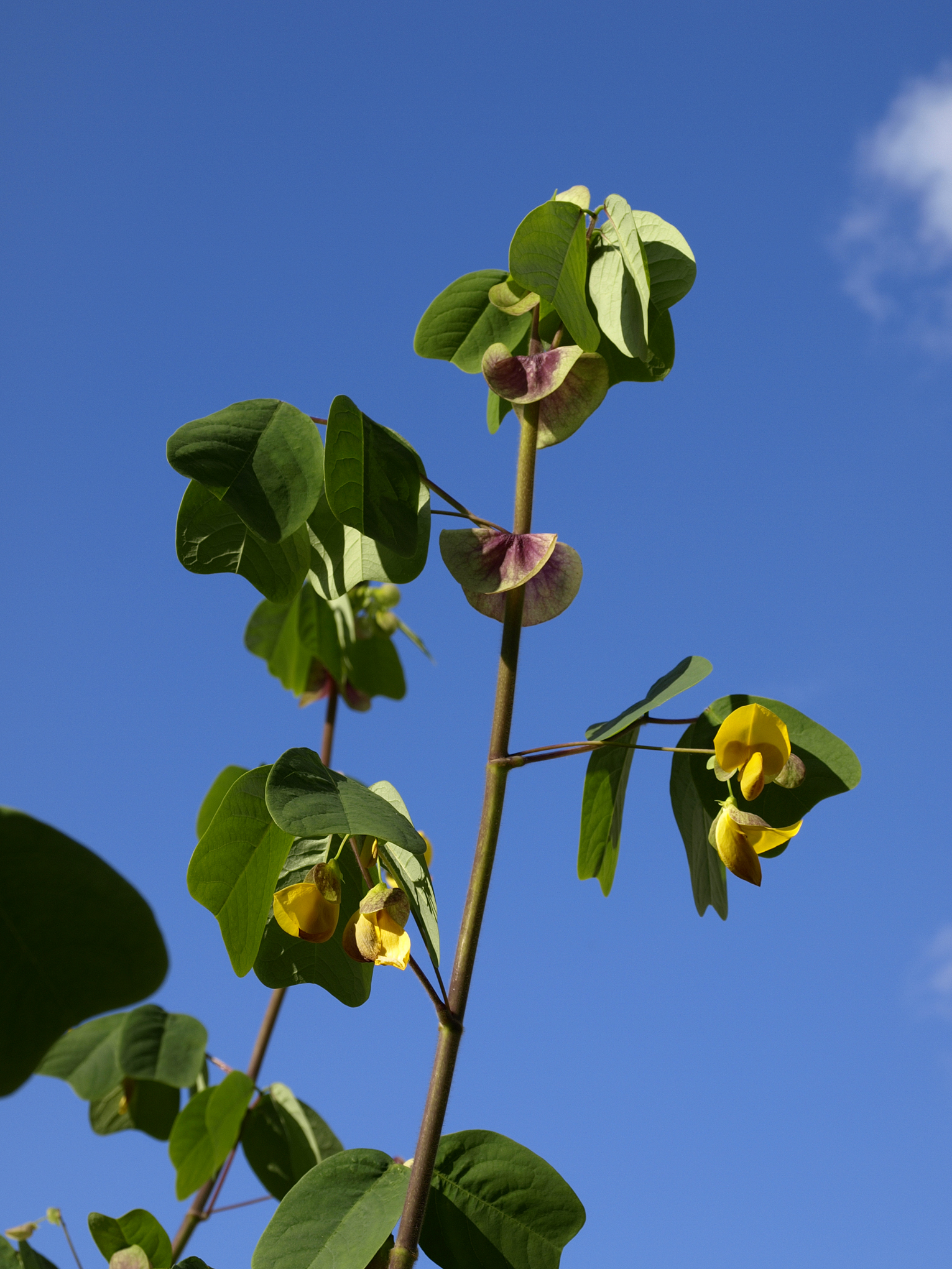 Amicia zygomeris private garden, The Narth, UK